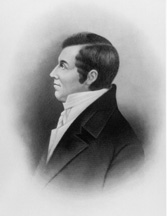 Portrait of Senator Edward Tiffin of Ohio